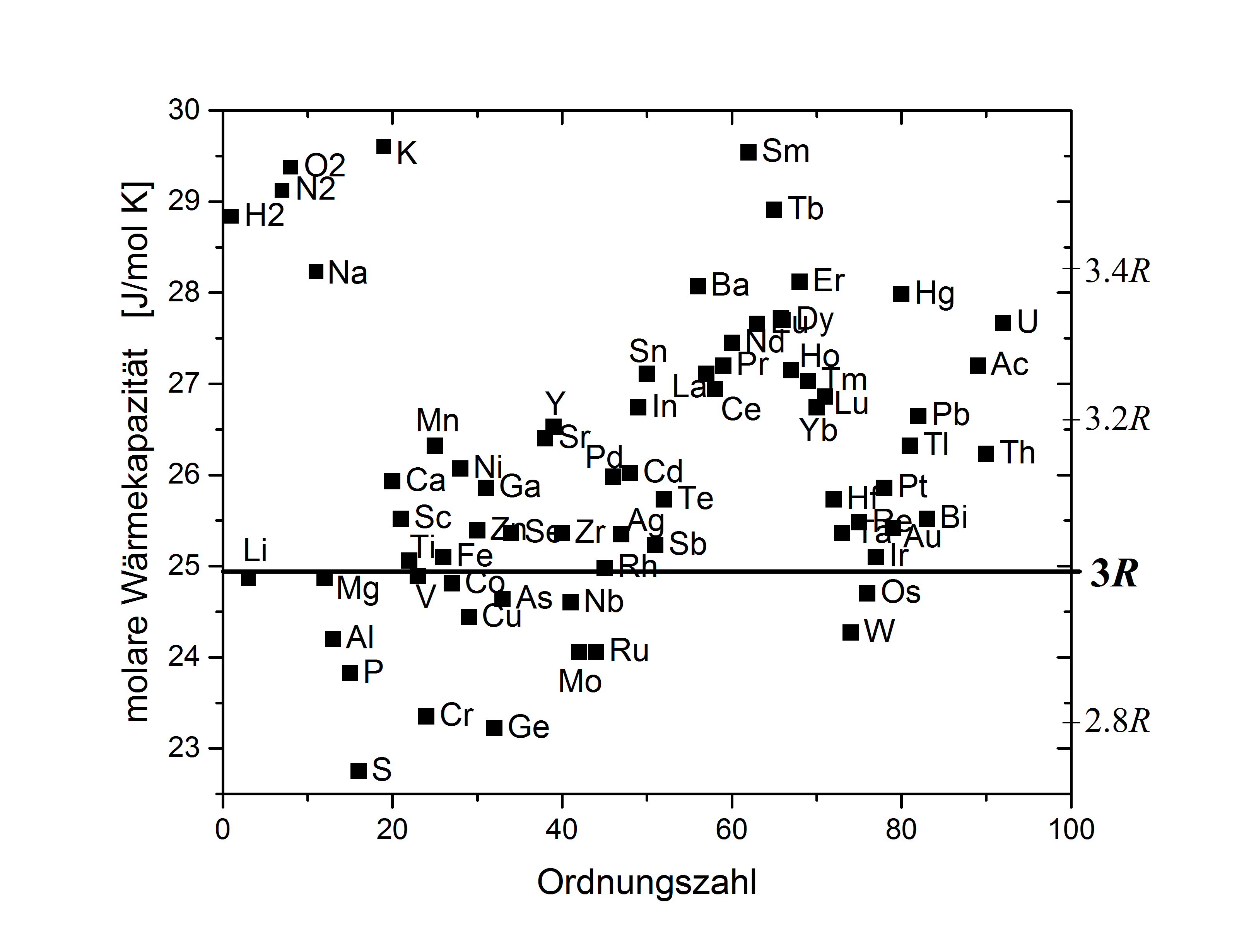 The molar heat capacities (molare Wärmekapazität) of elements at 25°C plotted as a function of atomic number (Ordnungszahl). German labels.